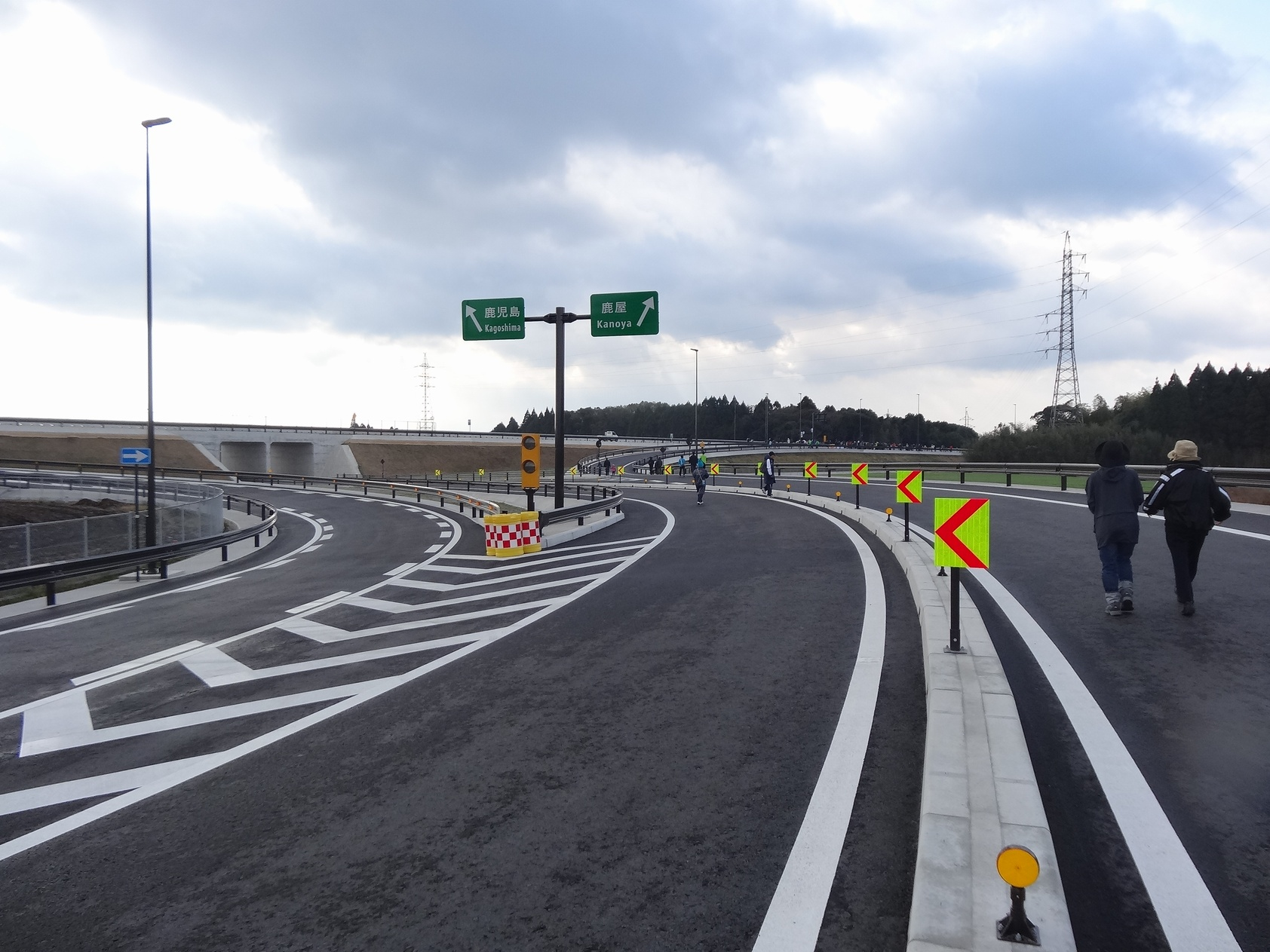 The Higashi-Kyushu Express Way Nogata Interchenge at Arasano, Nogata, Osaki Town, Kagoshima Prefecture, Japan.